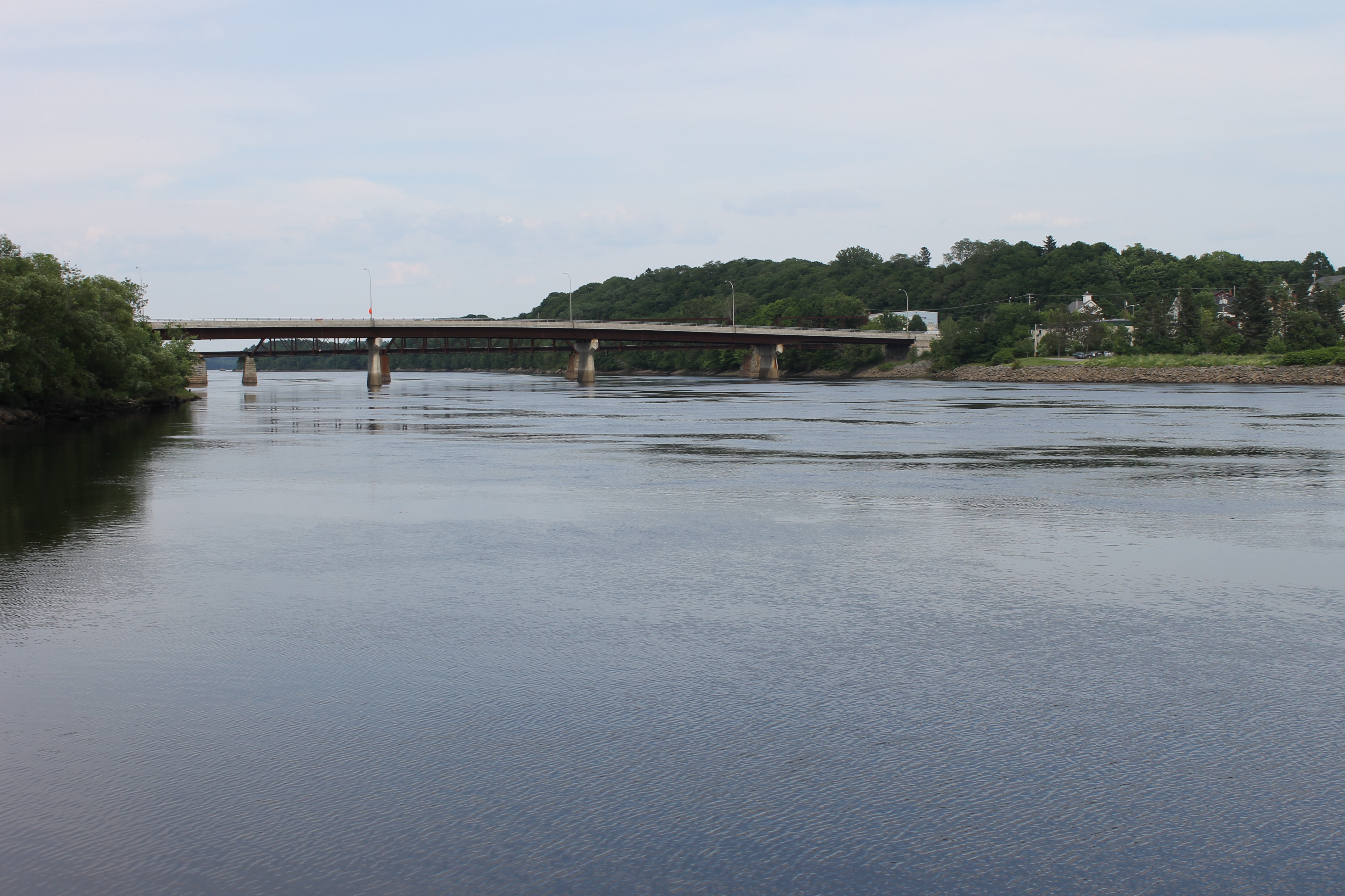 I took photo of Penobscot River at Bangor, ME, with Canon camera.